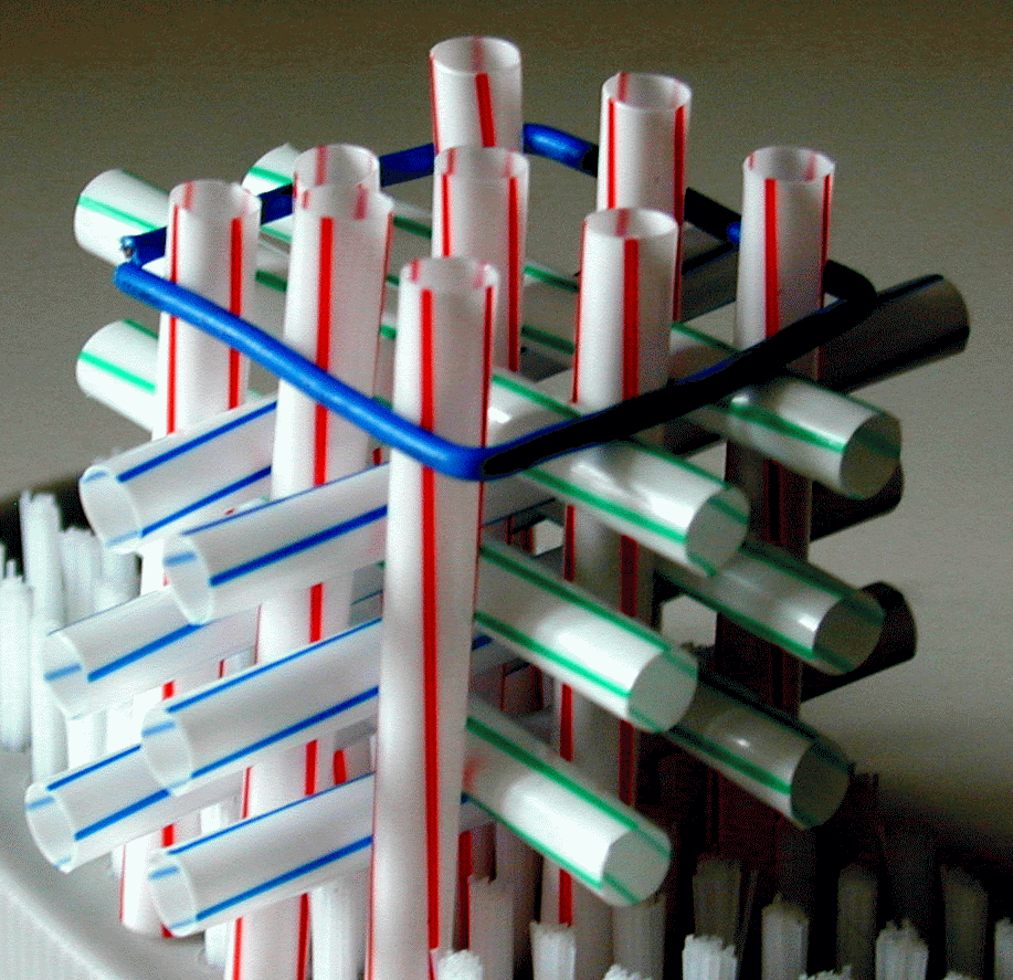 Cubic lattice of double twist tubes formed by cholesteric phases.